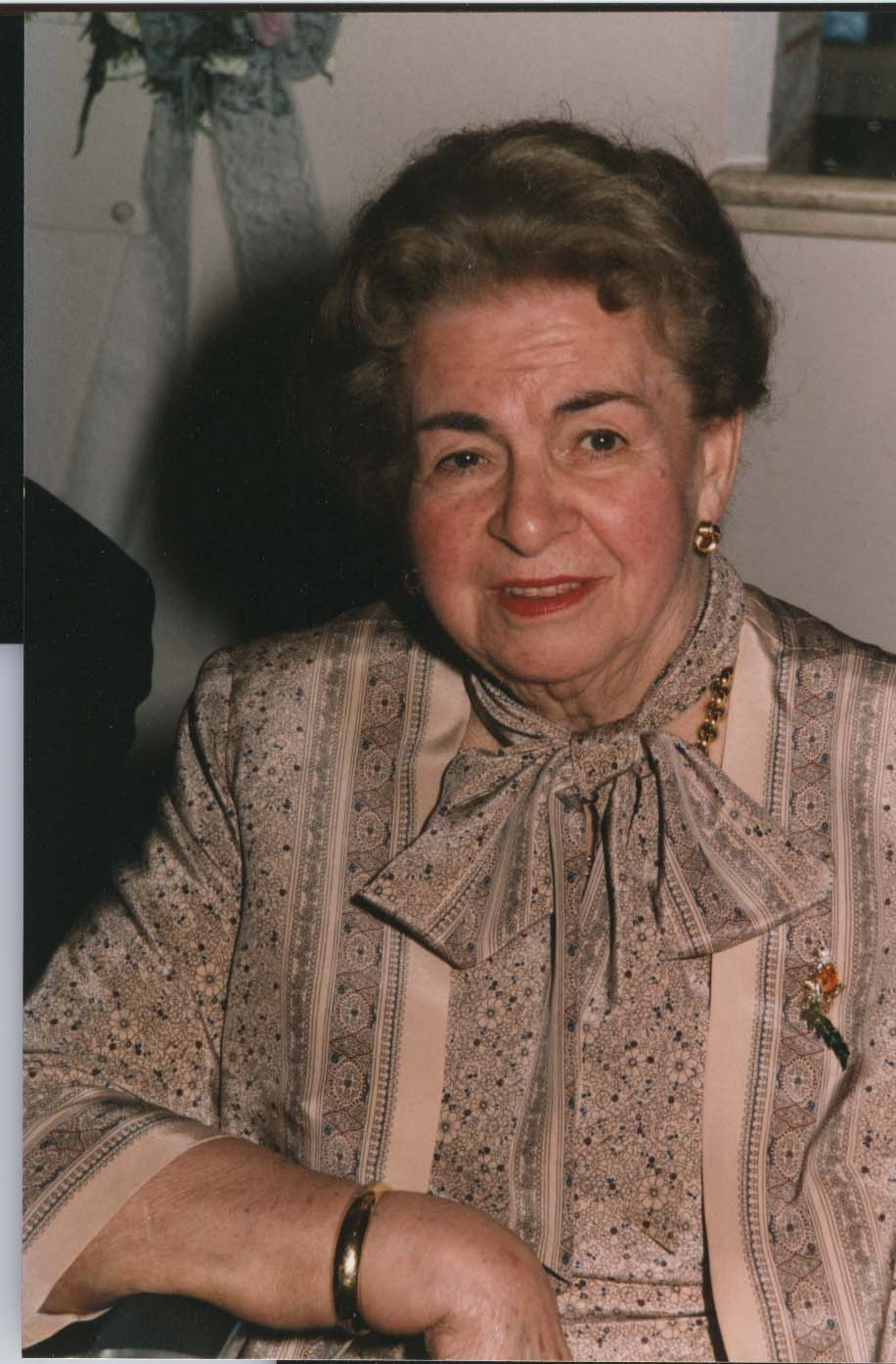 Trudel Hardieck in her hotel "Jaegerwinkel"